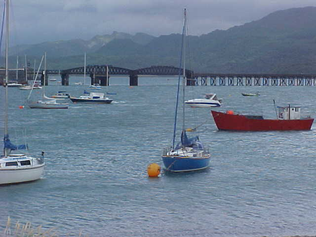 The swing bridge section of Barmouth Bridge, Gwynedd, as seen from Barmouth harbour.